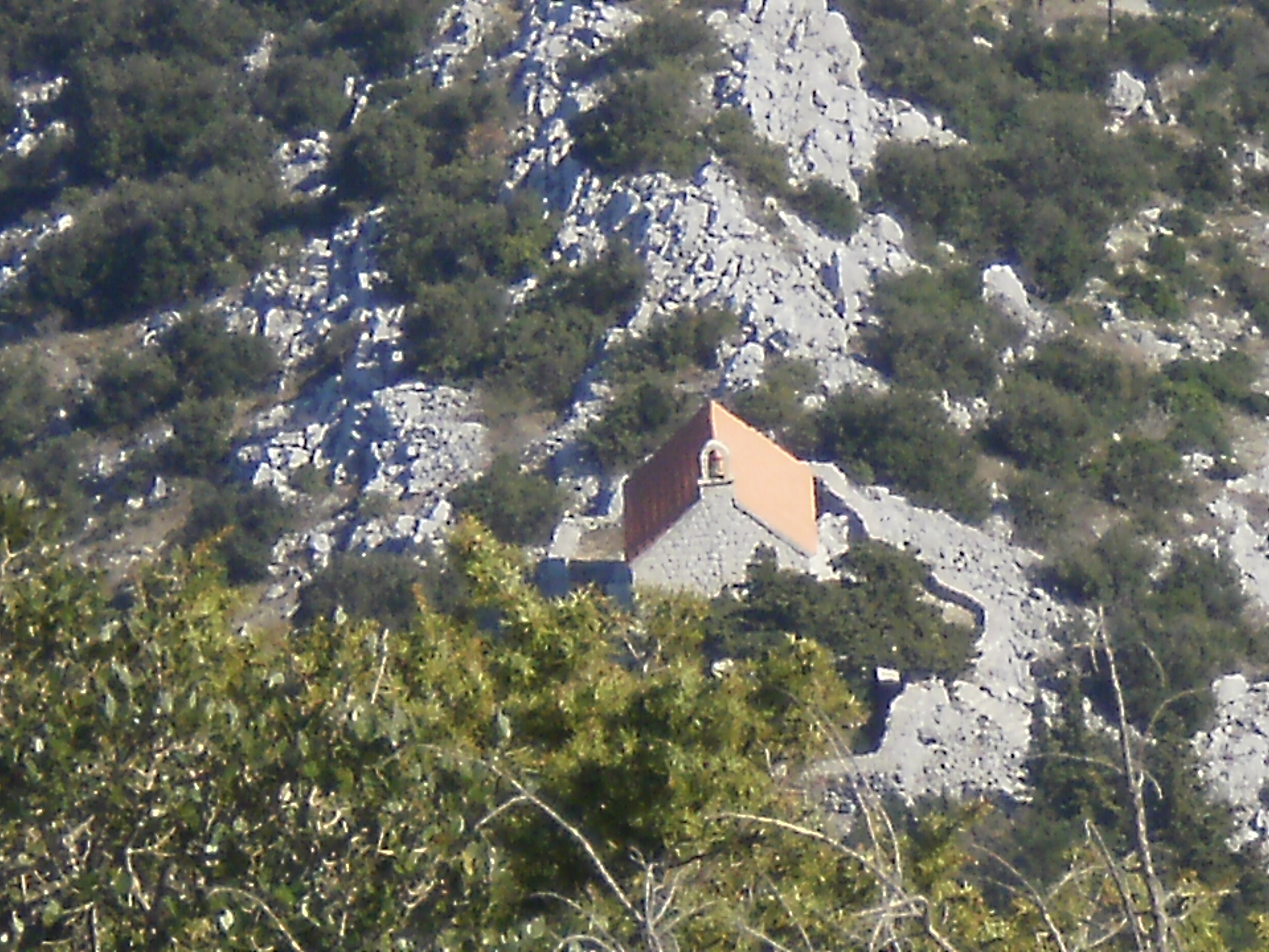 St. Nicholas church in Oskorušno OLYMPUS DIGITAL CAMERA